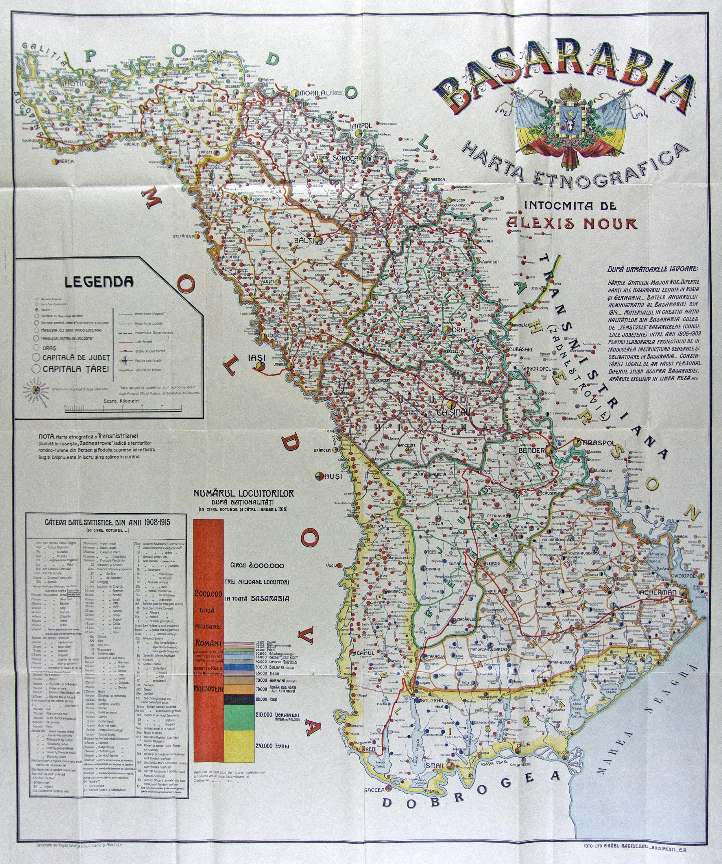 1916 ethnograph map of Bessarabia